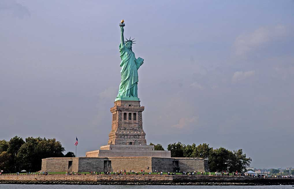 The beaten copper clad figure known as the Stature of Liberty is actually called 'Liberty Enlightening the World' It stands tall, proudly welcoming immigrants, returning Americans and visitors on Liberty Island near New York Harbor. A gift from the people of France, this statue, more than anything symbolizes the spirit of the United States of America. Shot from the ferry.